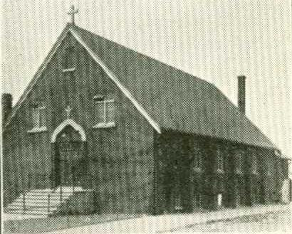 St Teresa's Roman Catholic Church, New Toronto south of Lakeshore